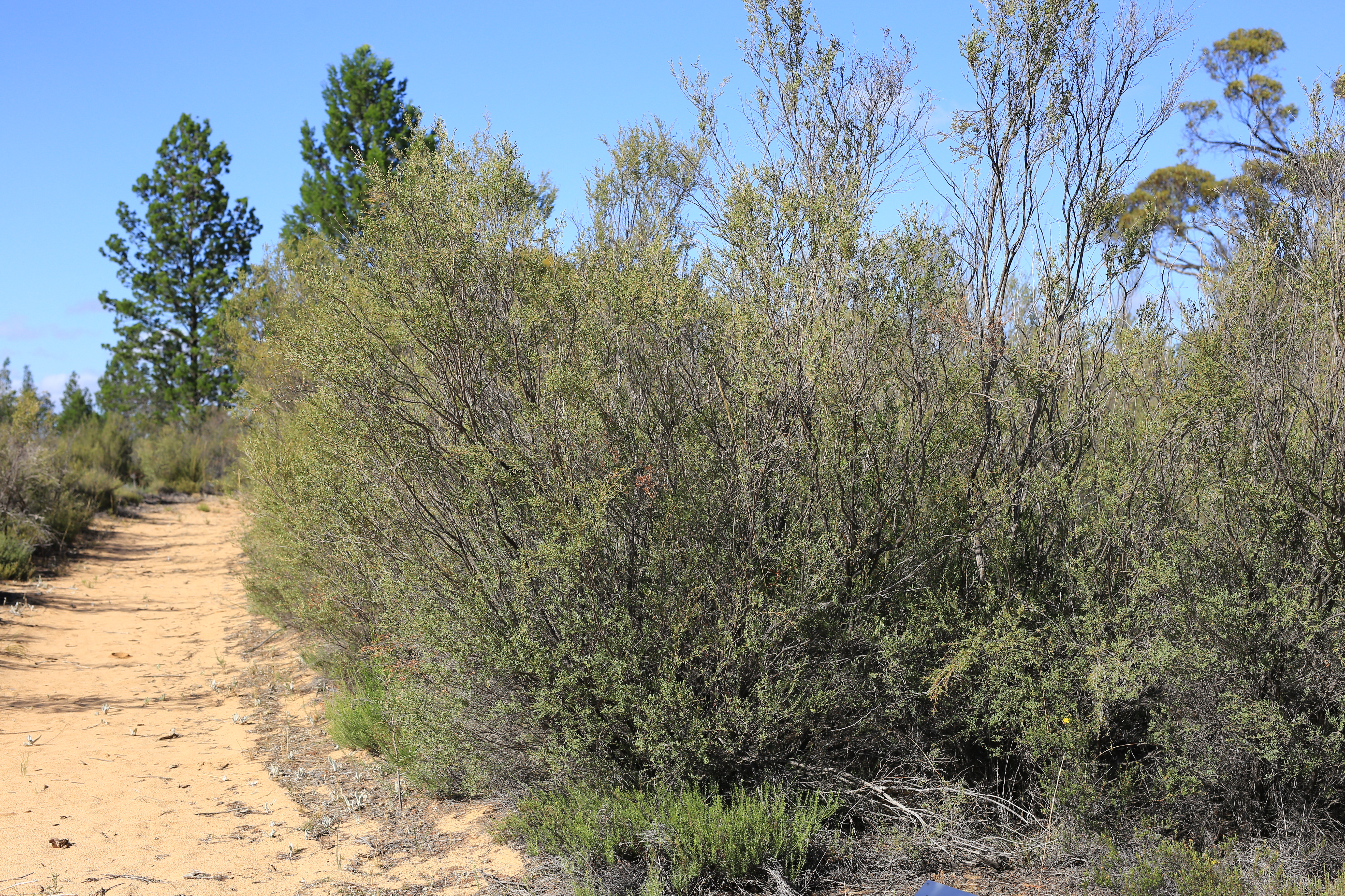 Leptospermum coriaceum (F.Muell. ex Miq.) Cheel, Wyperfeld National Park, VIC, 24 January 2017